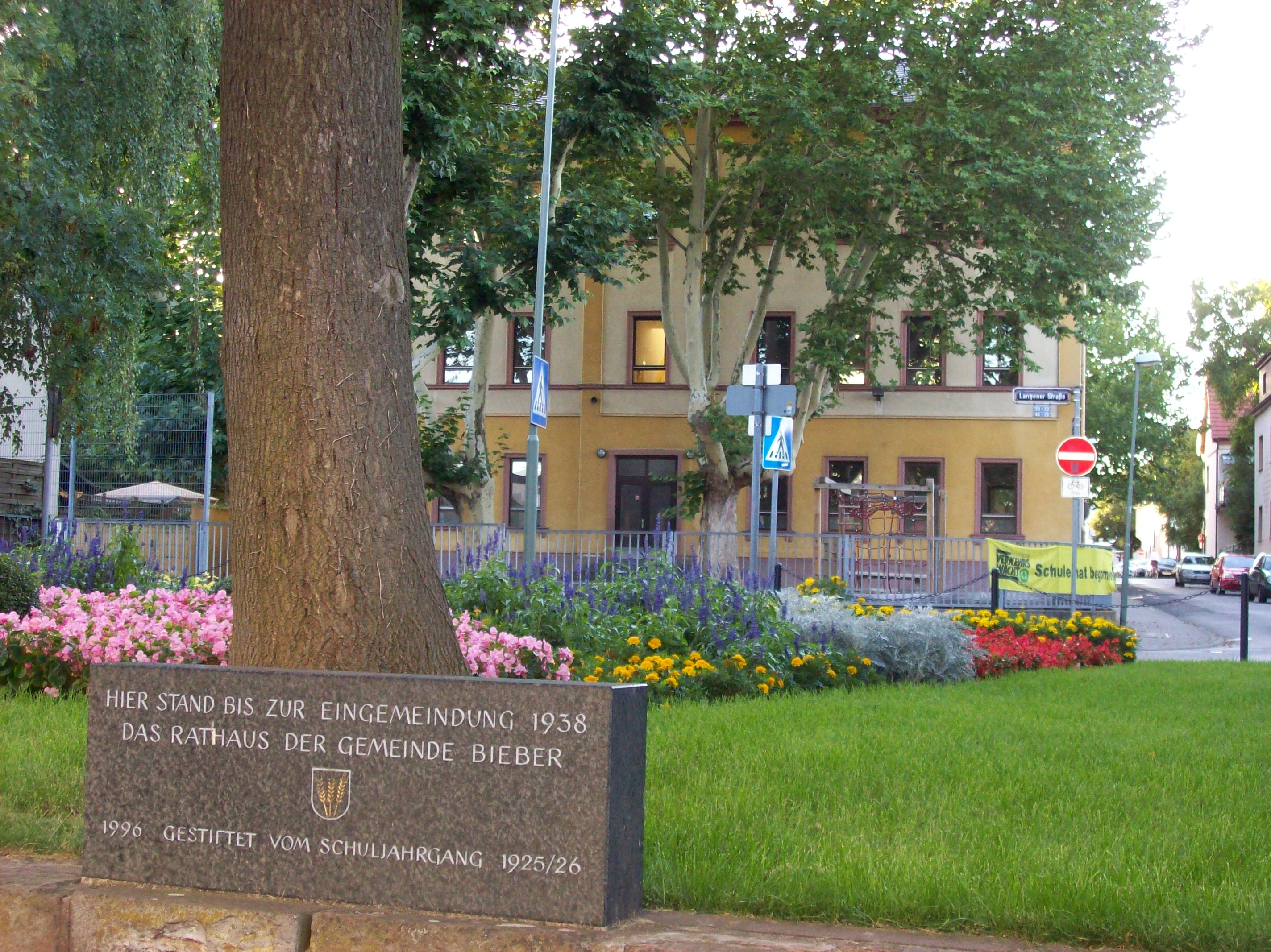 Location of the former city hall of Bieber. In the background the school.